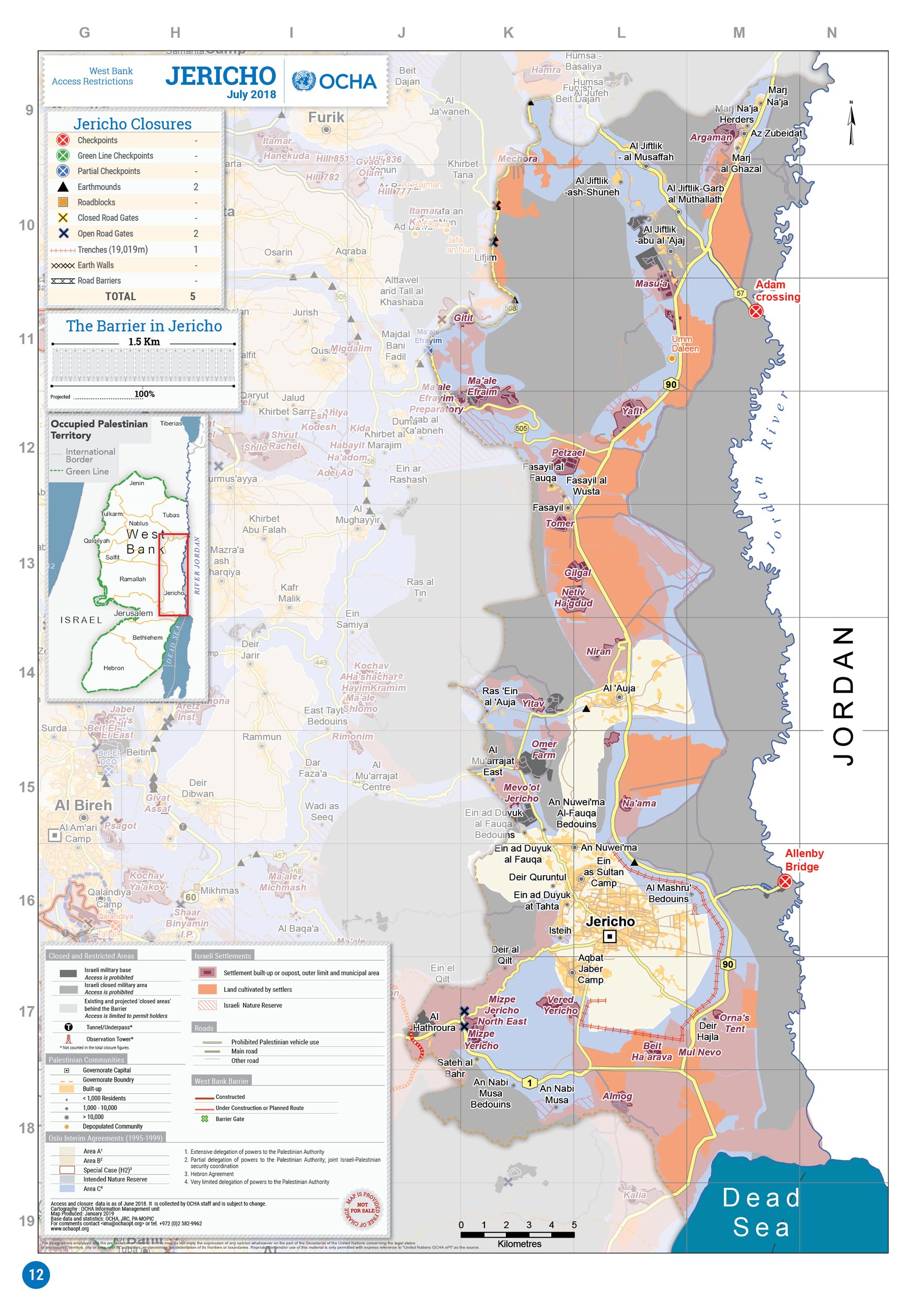 2018 OCHA OpT map